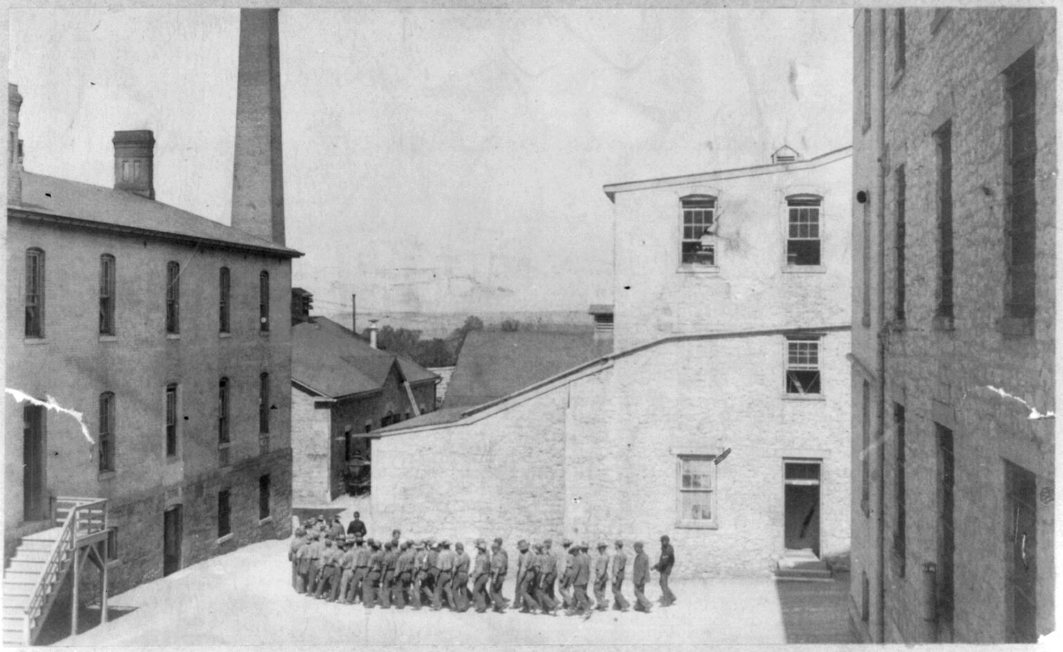 Prisoners marching to dinner, Leavenworth